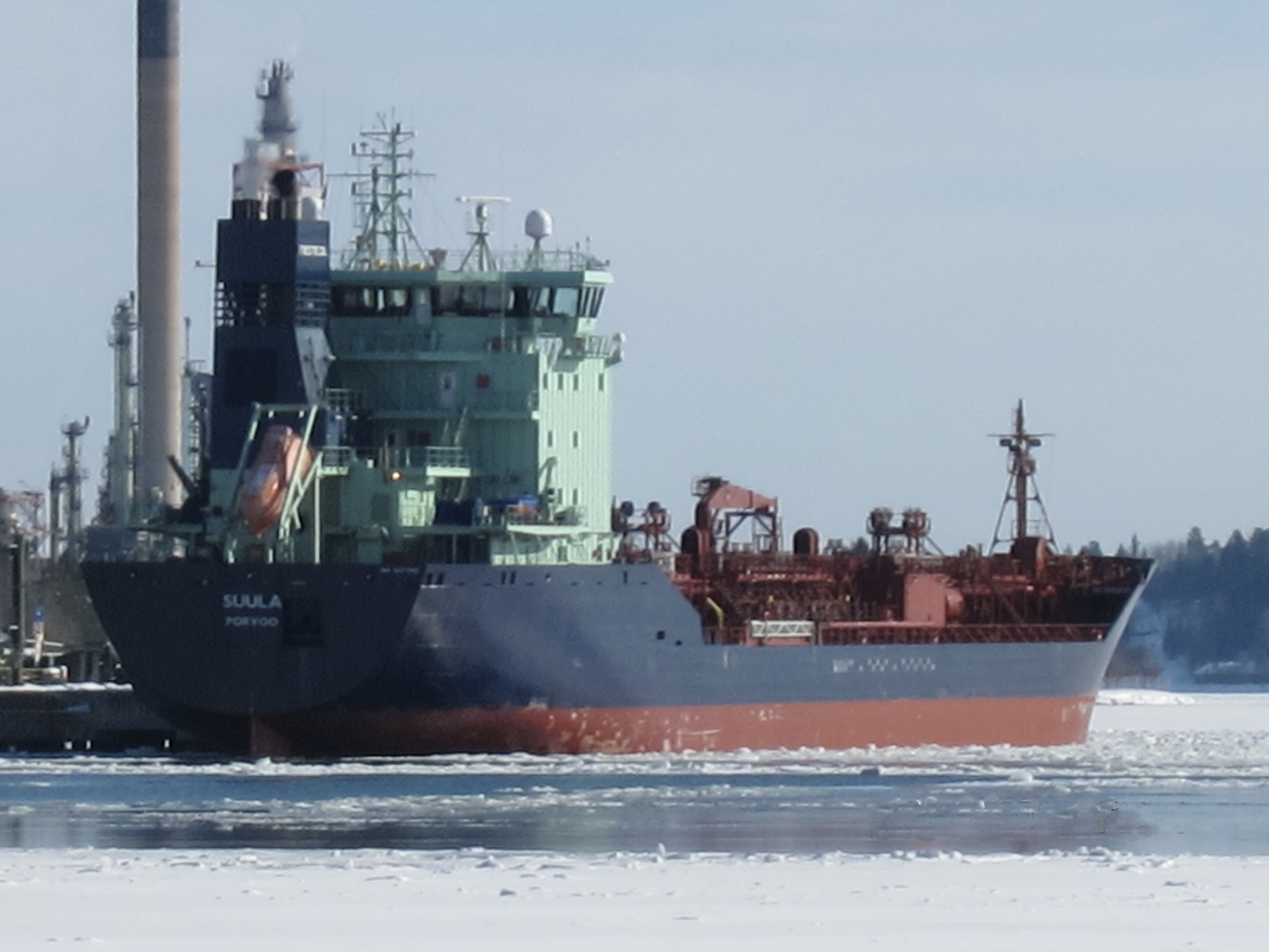 M/T Suula owned by Neste Oil at Port of Naantali, Finland. IMO Number: 9267560 MMSI Number: 230957000 Length: 140 m Beam: 22 m